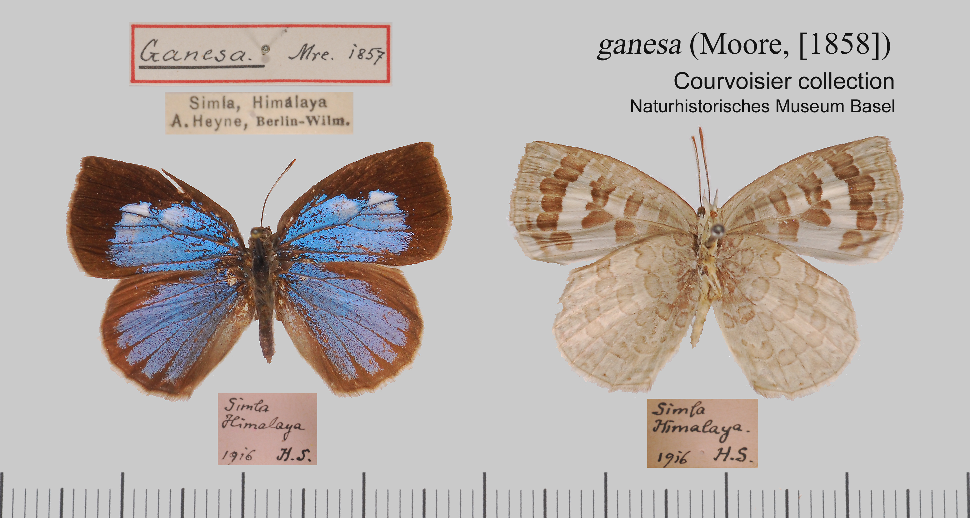 Arhopala ganesa, male, N. India, Simla, Courvoisier collection NHM Basel, Alan Cassidy photo.